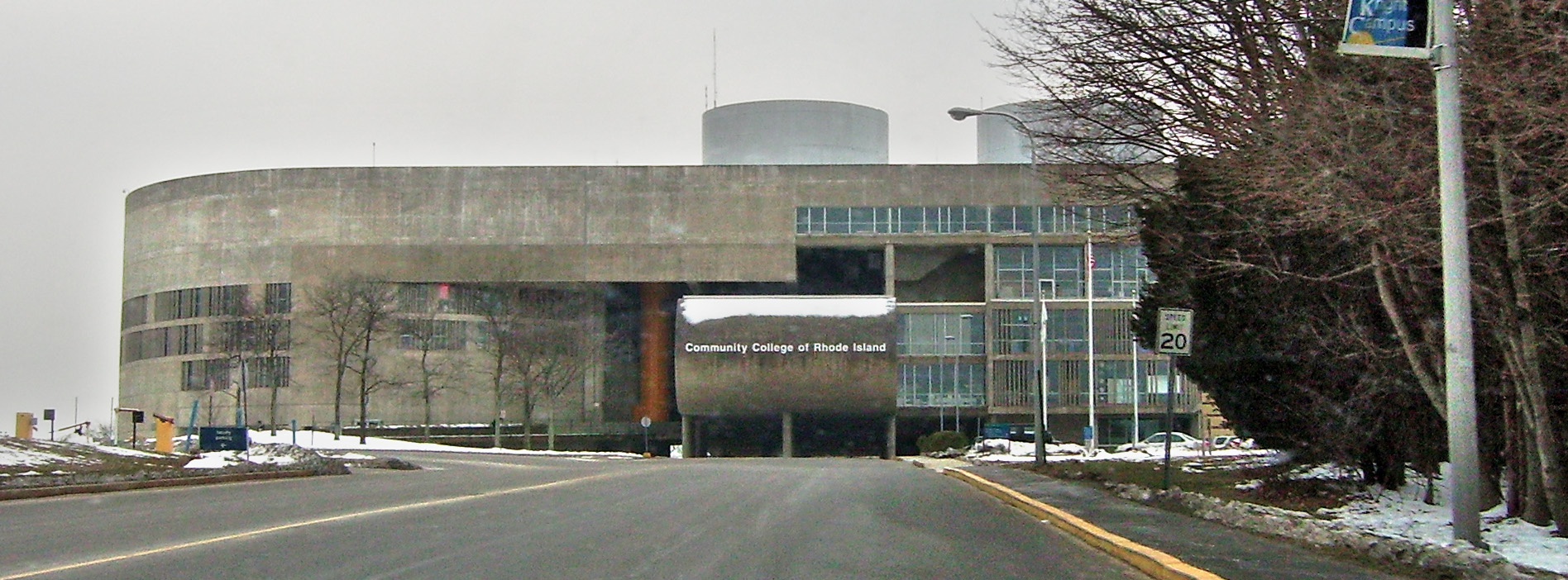 The front side of the Flagship Community College of Rhode Island Campus (Knight Campus in Warwick Rhode Island)